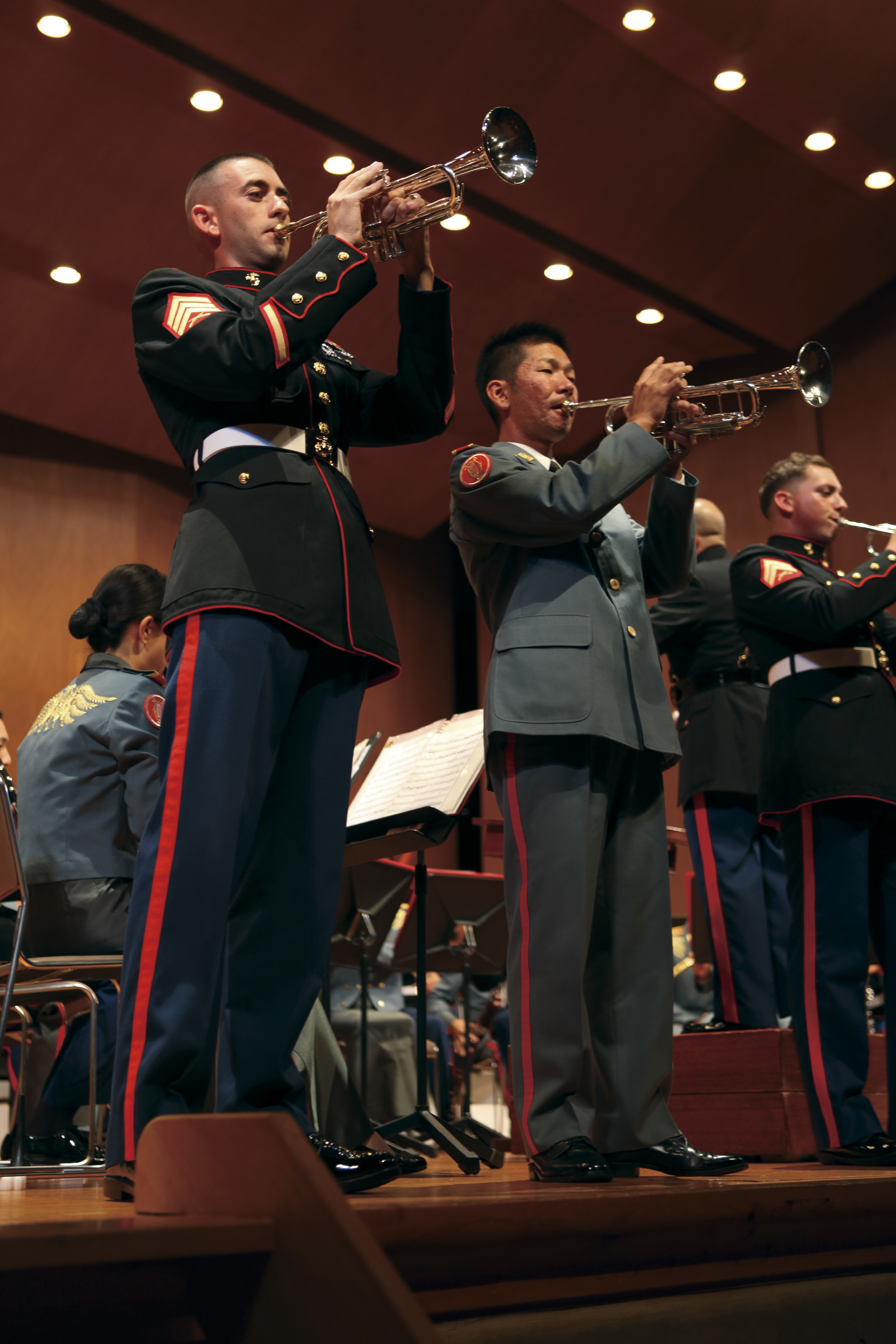 Trumpeters with the III Marine Expeditionary Force Band and 15th Band Japan Ground Self Defense Force perform a section solo at the 15th Annual Combined Band Concert, Sept. 18.